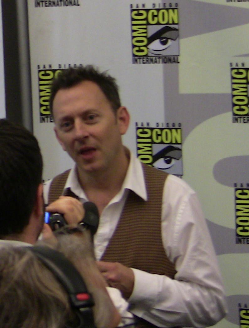 Actor Michael Emerson – Comic-Con 2009 - Lost press room - San Diego, Calif. - July 25, 2009.